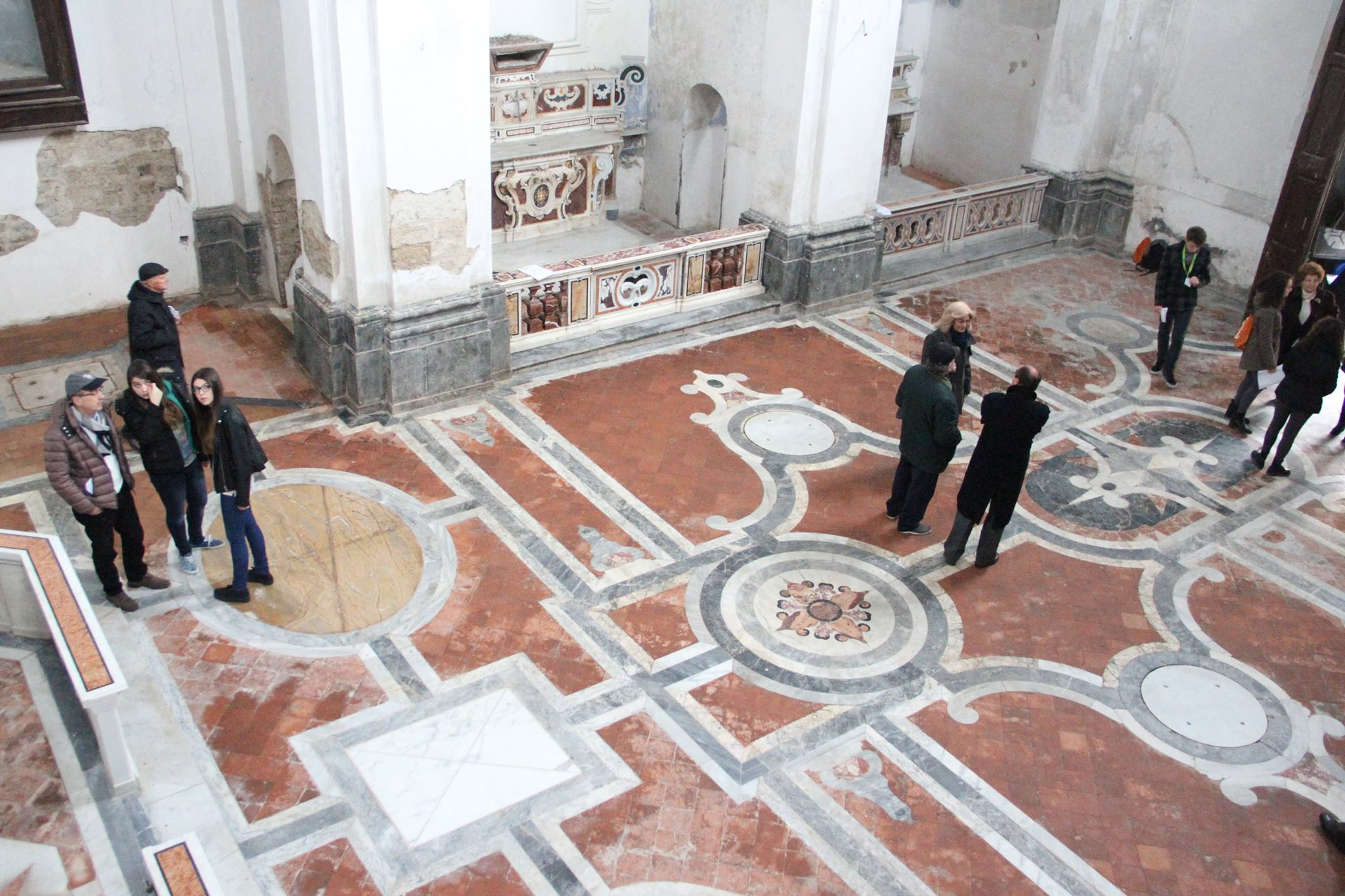 Interior of the church of San Marco dei Sabariani in Santa Teresa, Benevento, Italy, opened exceptionally on 22nd March 2015 during the Fondo Ambiente Italiano's "Giornate di Primavera"